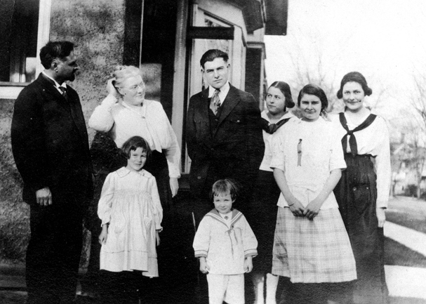 The Clarence E. Hemingway family, Oak Park, Illinois, ca. 1917. L-R: Dr. C. E. Hemingway, Carol, Grace Hall Hemingway, Ernest, Leicester, Ursula, Sunny, Marcelline.